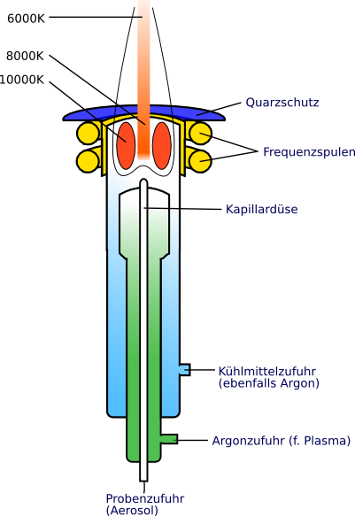 Drawing of a burner nozzle for Inductively coupled plasma. Fotograf oder Zeichner: Eigene Illustration